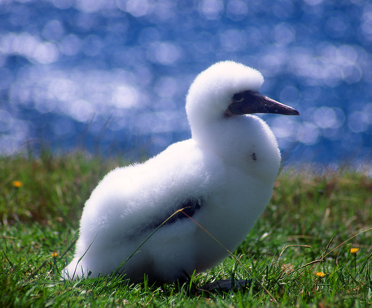 Masked Booby chick, Norfolk Island.